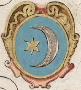 Coat of arms of Grand Illyria, also refered to as the oldest coat of arms of Croatia